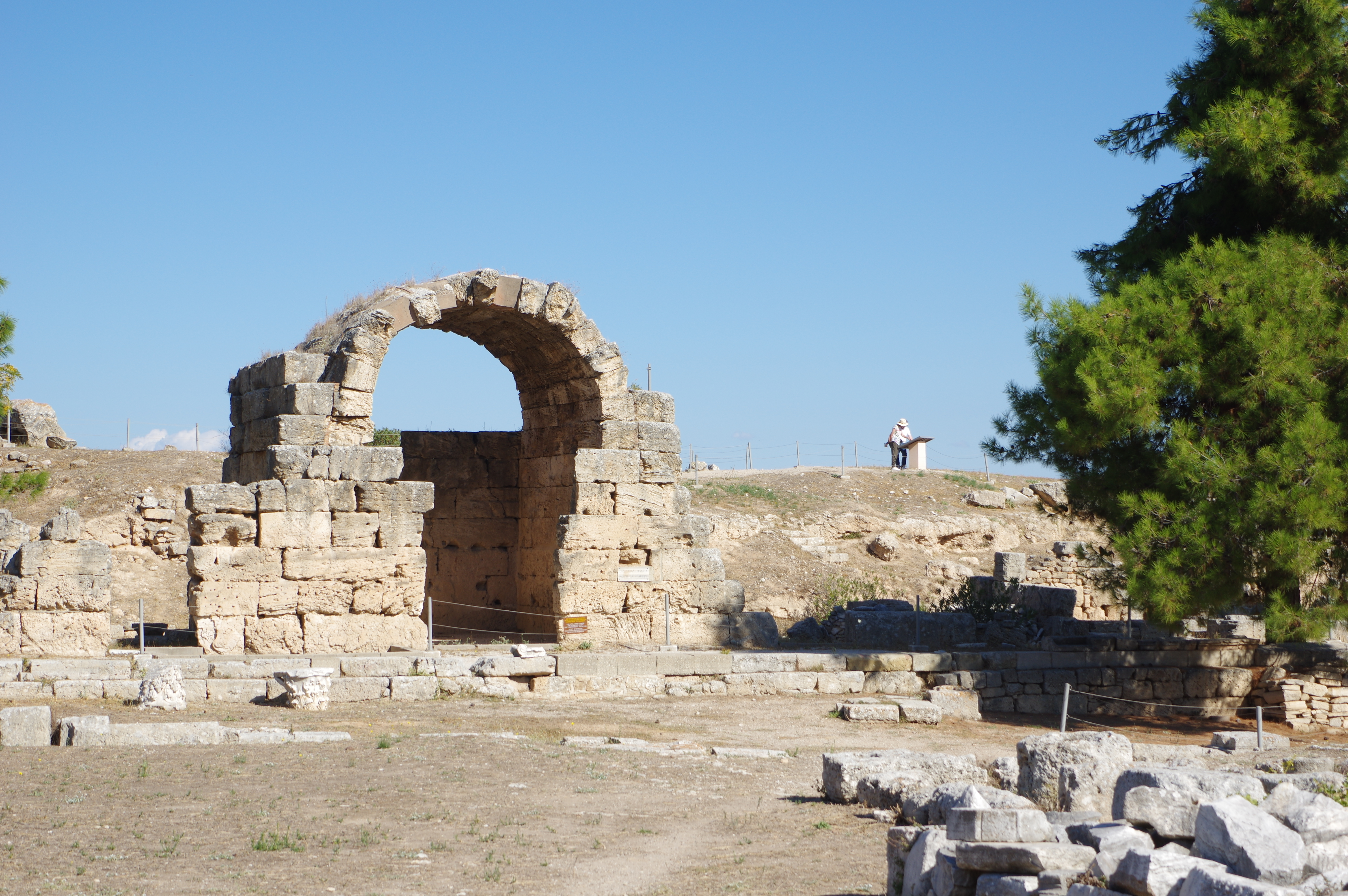 Greece, Ancient Corinth, Agora, North west shops